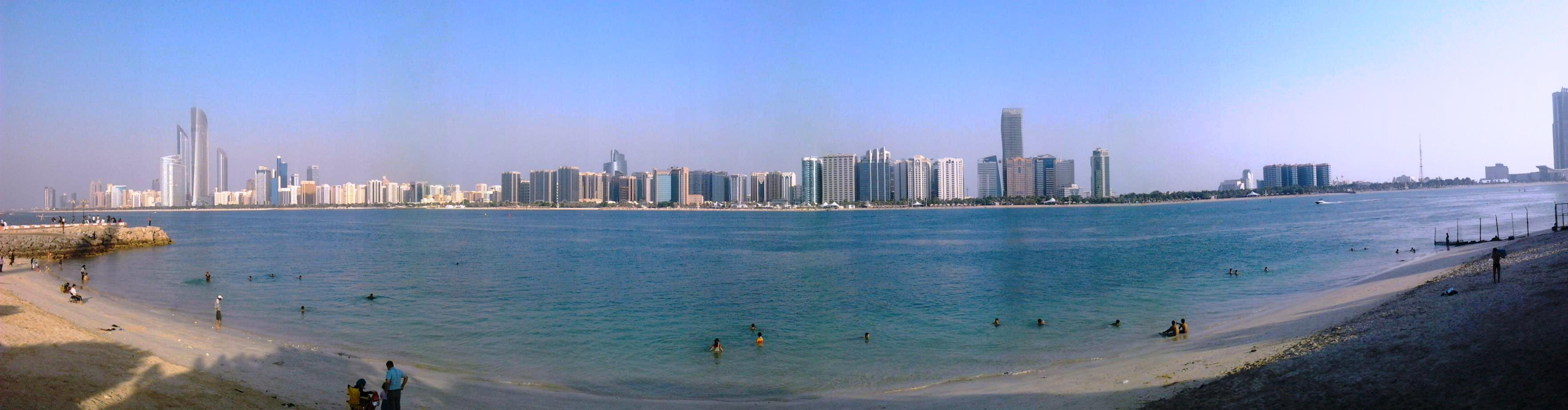 Panoramic view of the Corniche in Abu Dhabi, UAE